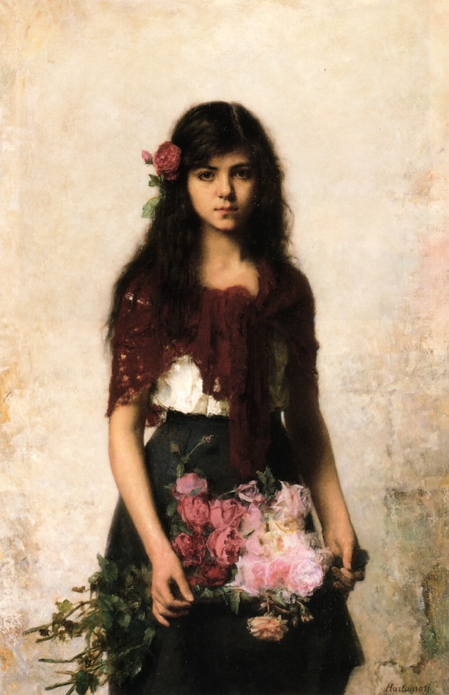 The Flower Seller.